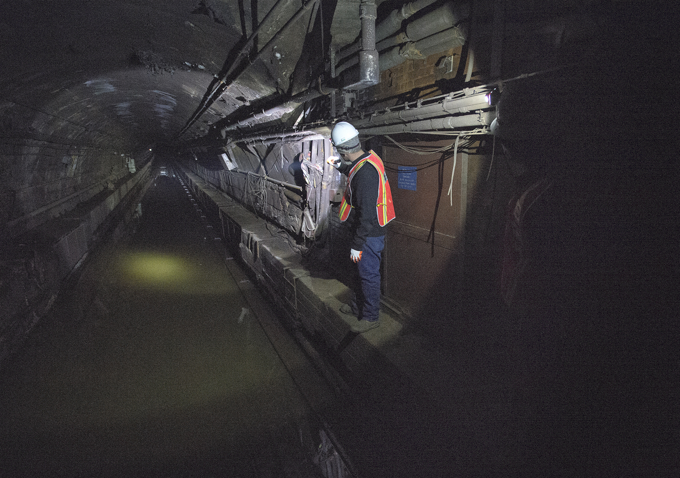 MTA employees using a pump train are working around the clock to pump seawater out of the L train's tunnel under the East River. The tunnel was flooded during the unprecedented 13-foot storm surge of Hurricane Sandy. This photo shows activity on the afternoon of Monday, November 5. After the tunnel is pumped dry of water, work will begin to inspect tracks, signals, switches, electrical components, and third rail. If any repairs are needed, employees will make them as quickly as possible to get service restored. Photo: Metropolitan Transportation Authority / Patrick Cashin.